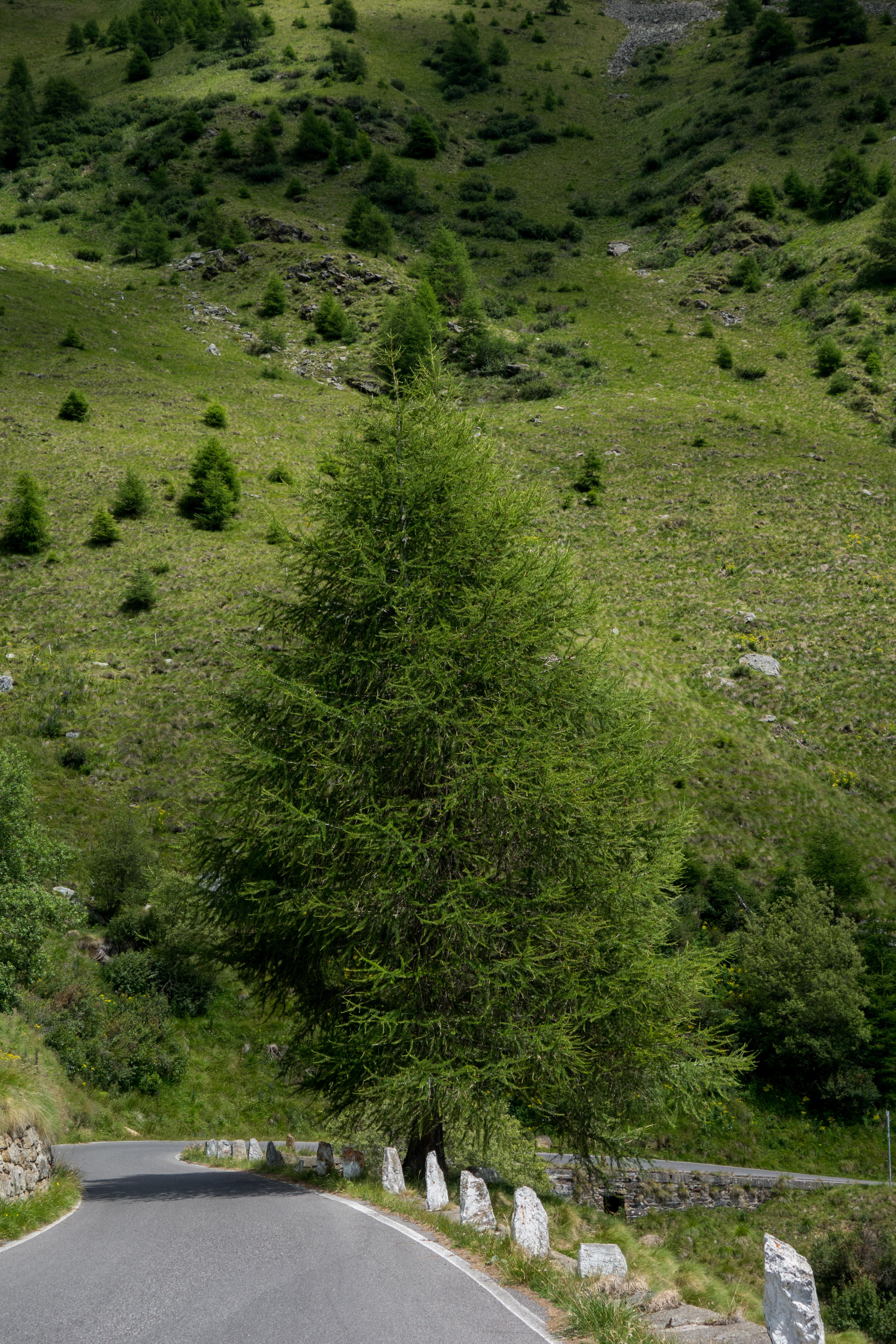 Ex SS300 del Passo di Gavia, photo taken between Sant'Apollonia and the tunnel.